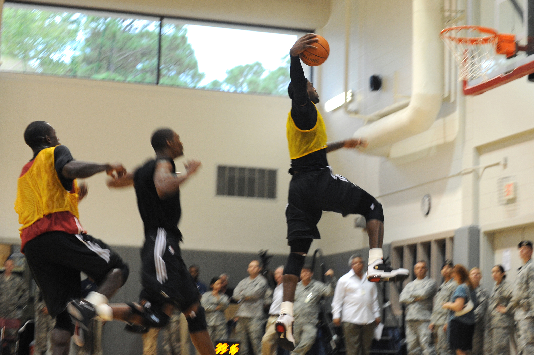 LeBron James (right) prepares to dunk a basketball as fellow teammates Dwyane Wade (left) and Chris Bosh (center) watch during a preseason practice session Sept. 28, 2010, at the Aderholt Fitness Center at Hurlburt Field, Fla. The team will use the fitness center for their week-long training camp.